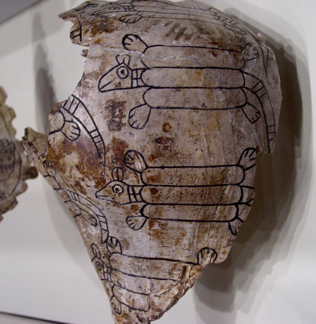 S.E.C.C. engraved shell Opossum design from Spiro Mounds Oklahoma.